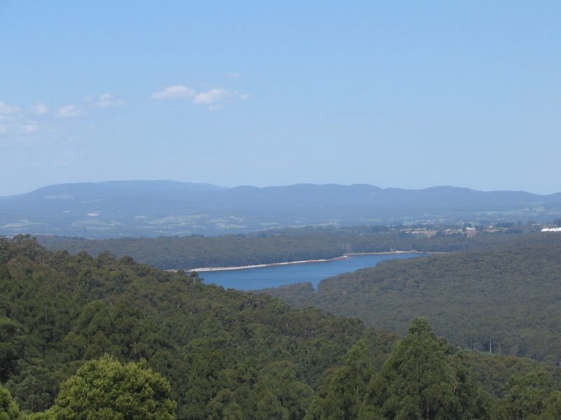 Silvan Reservoir from Kalorama, Victoria (Photograph by Jeremy Lunn)